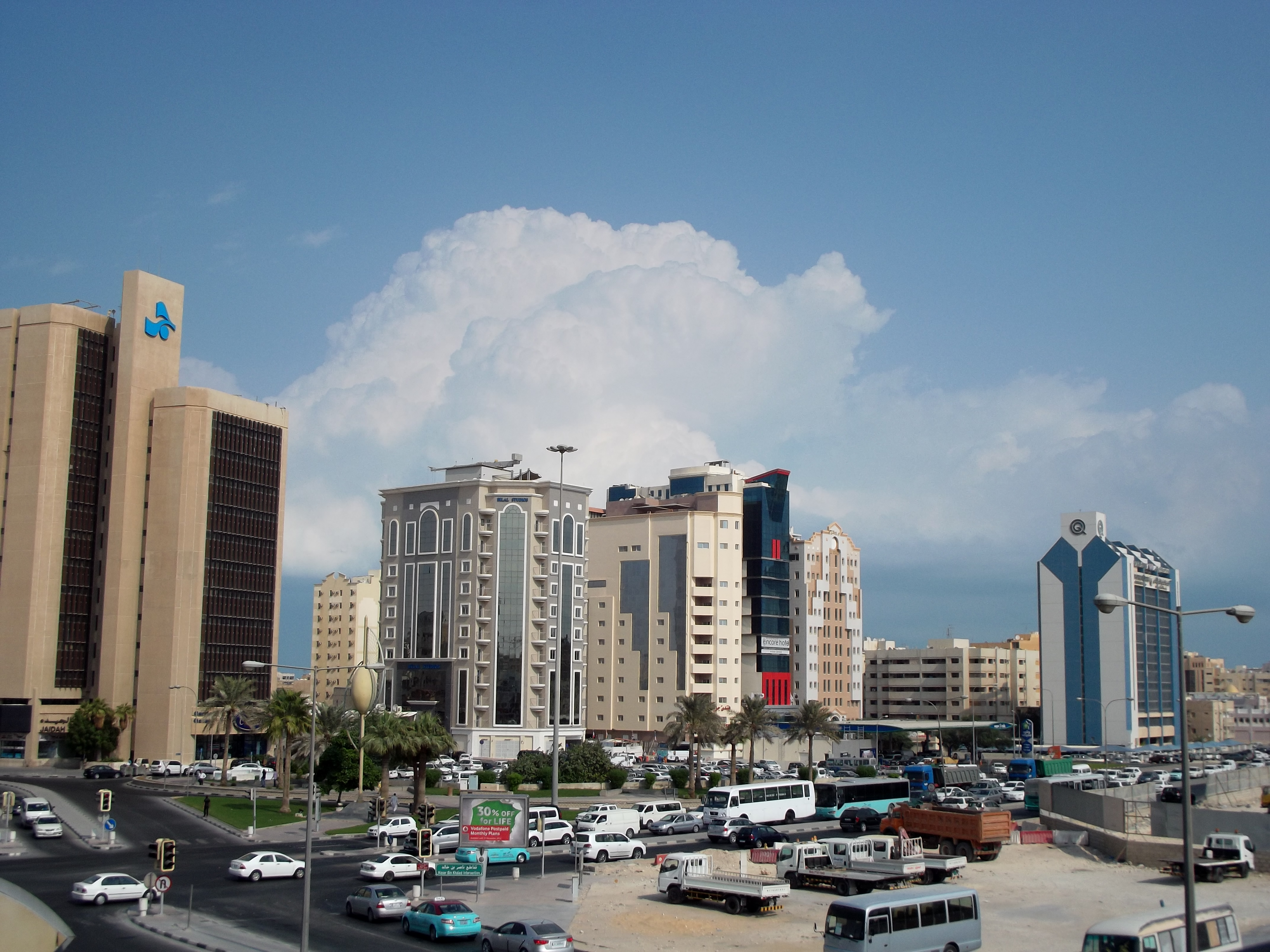 Musheireb, Doha skyline in 2012. Al Bilal Towers on Al Areeq Street can be seen.